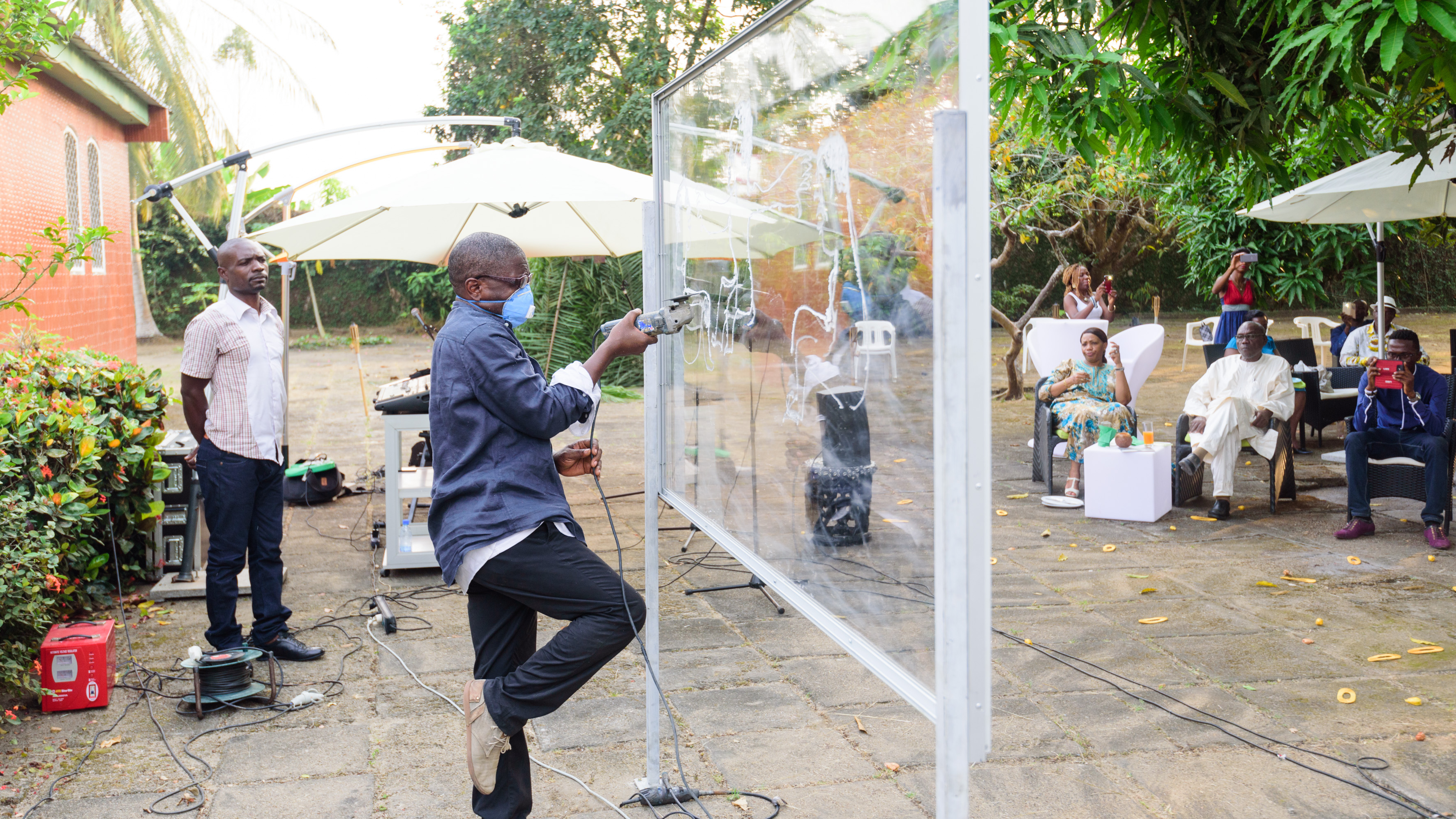 Joël Mpah Dooh vit et travaille à Bonendale, au Cameroun. Diplômé du Conservatoire Municipal des Beaux-Arts d’Amiens (France). Il a participé à plusieurs expositions collectives et individuelles en Afrique et en Europe. Il a réalisé plusieurs fresques pour la ville de Douala. Il a exposé à Dak'At 1998, 2000 et 2007 à l'initiative des Galeries Mam de Douala et Atiss de Dakar. Joël Mpah Dooh a exposé en 2008 et en 2012 à la Biennale de Johannesburg (Afrique du Sud). This is an image with the theme "Play" from: Cameroon